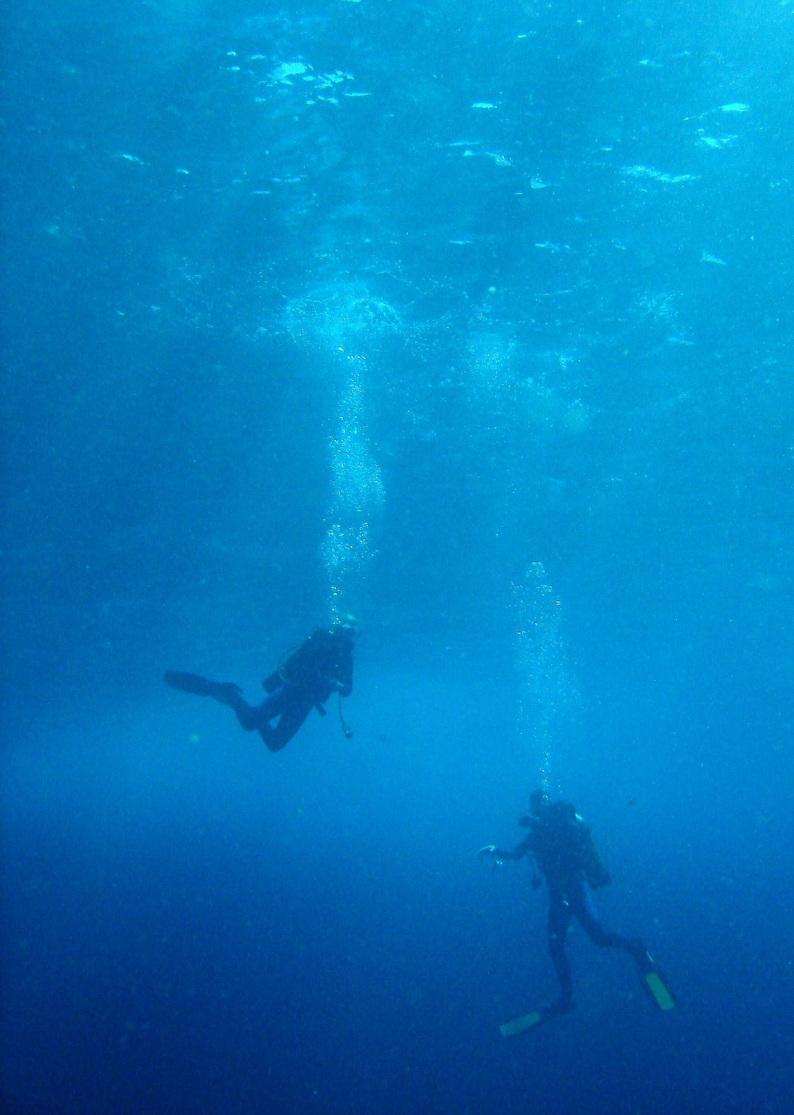 scuba diving safety stop at 3 meters for 5 minutes. around padang bai, bali, indonesia